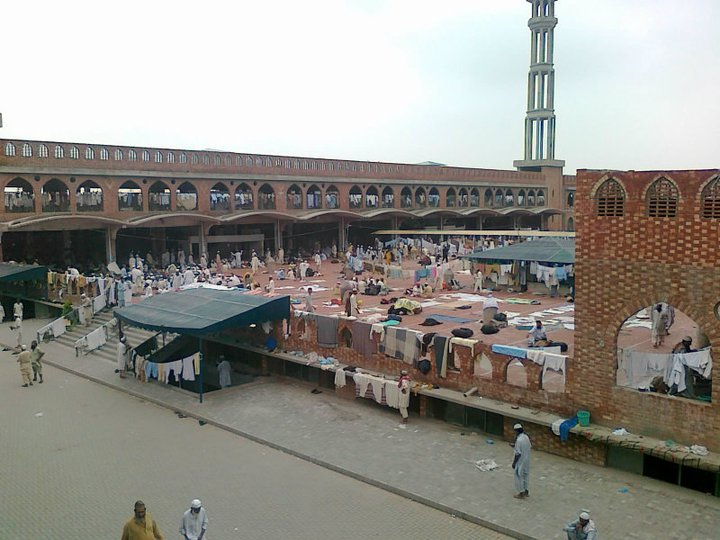 View of Mosque from Madrissa Arabia Raiwind, Lahore